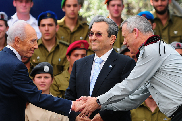 President Peres, Events in Israel